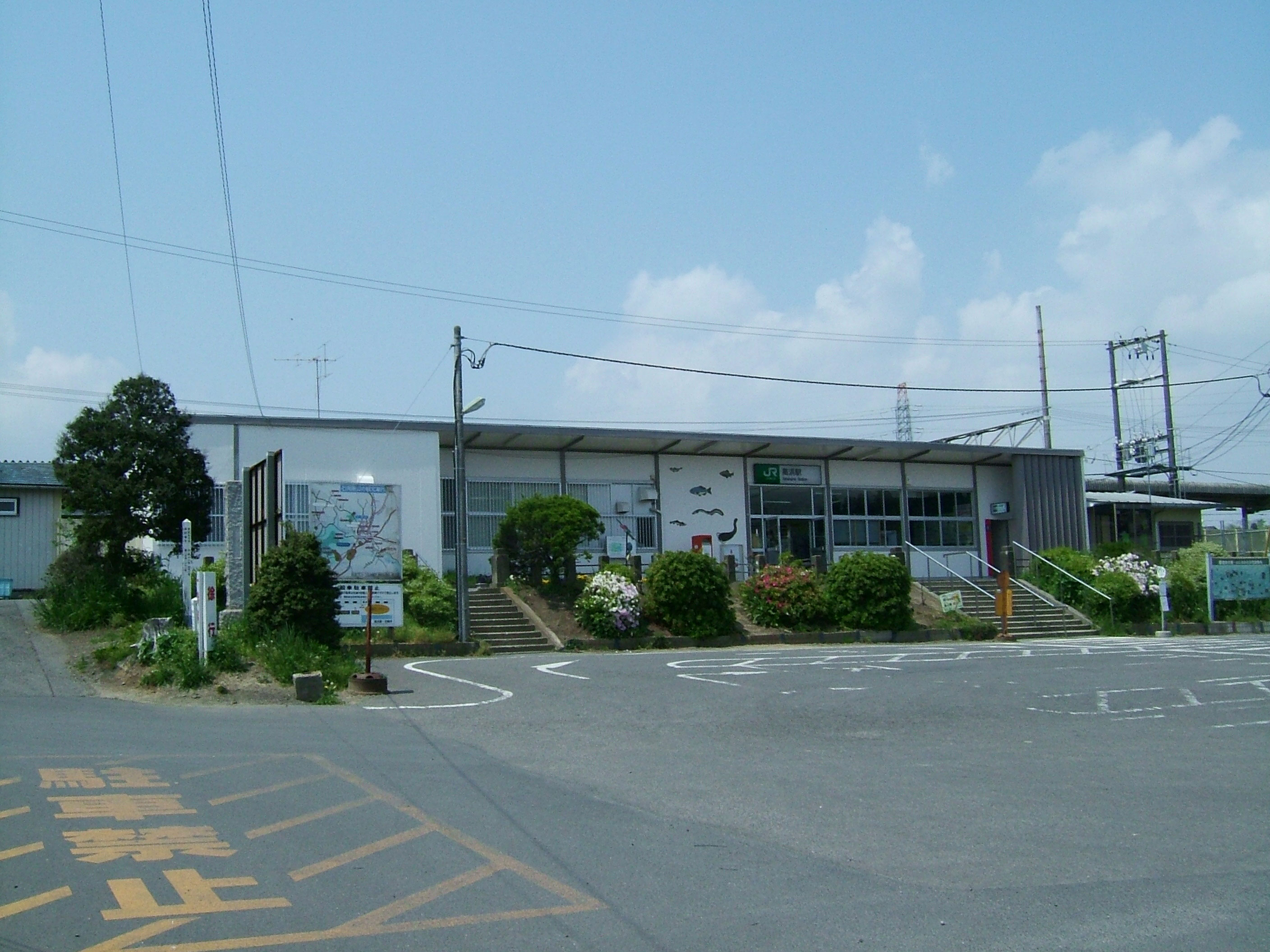 Takahama Station building (East Japan Railway Jōban Line)